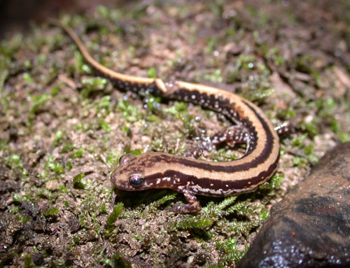 A Three-lined salamander (Eurycea guttolineata) in the Chattahoochee River National Recreation Area, Georgia